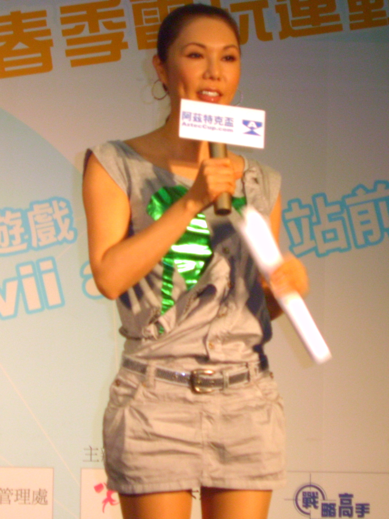 2007 Taiwan Aztec Cup: Re Gine (Original Name: Chung-ming Wu) is the host of model final competition.